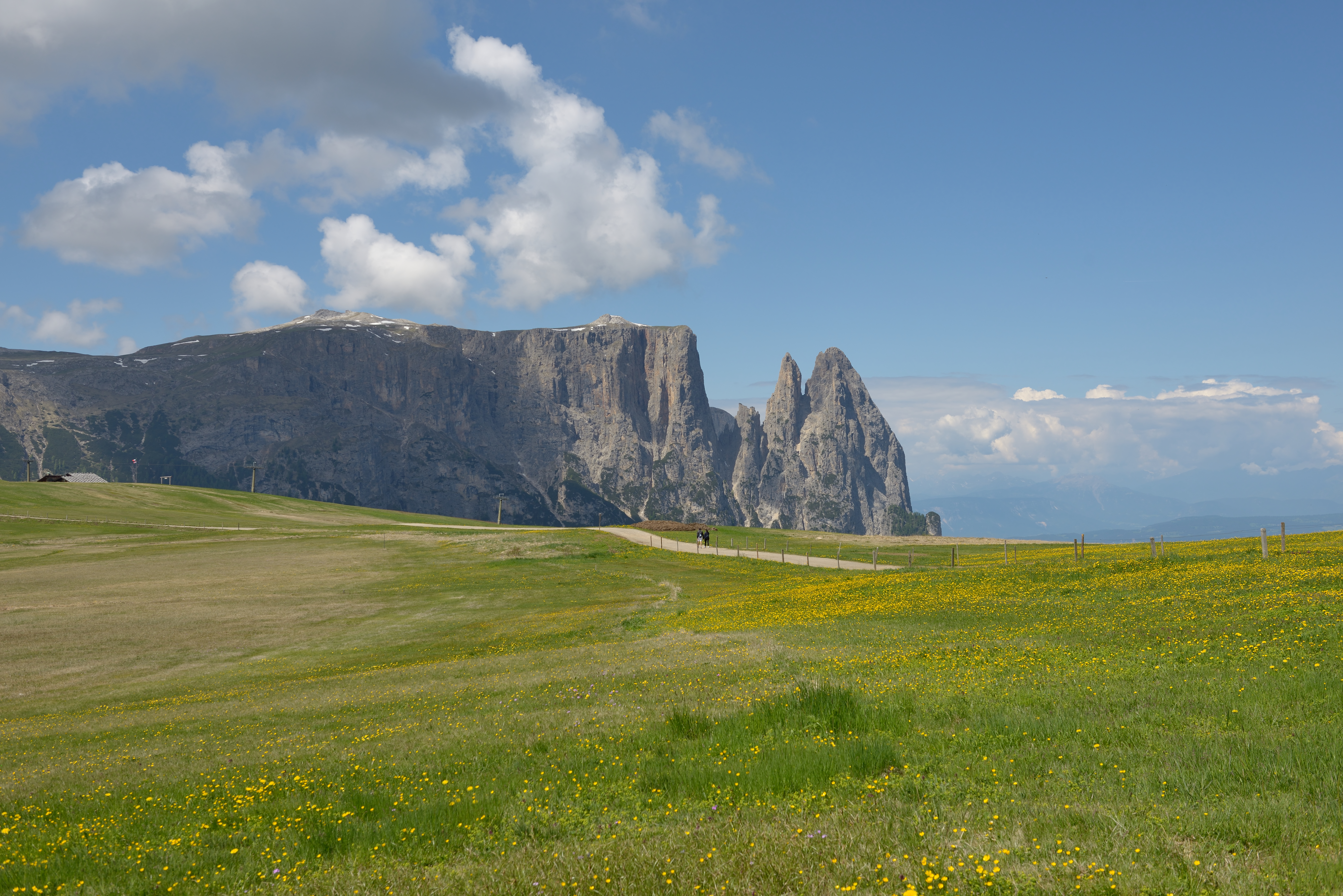 The Schlern Mountain seen from Seiseralm in South Tyrol.